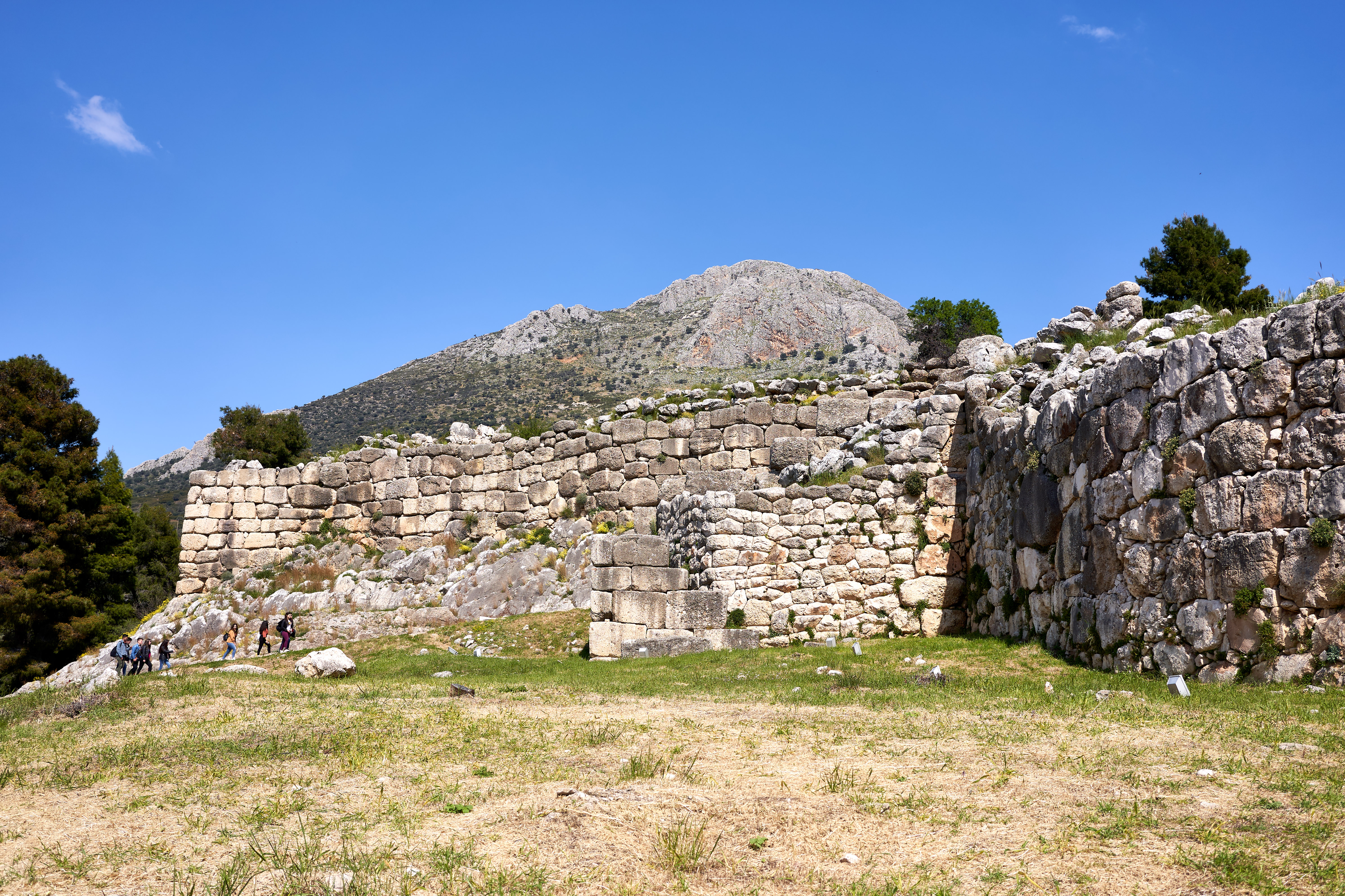 Tourists heading to the Lion Gate of Mycenae. Argolis, Greece.